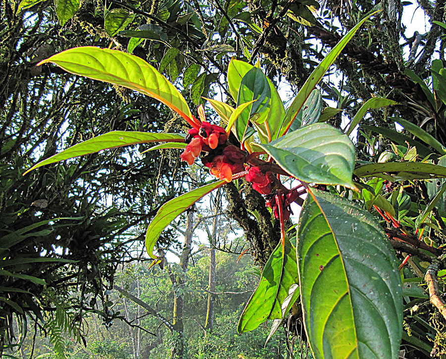 Native from Nicaragua to Peru. In context at